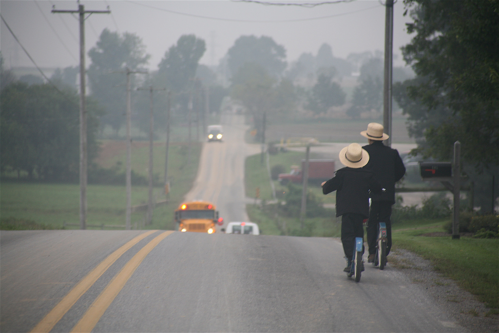 Two ways to get there